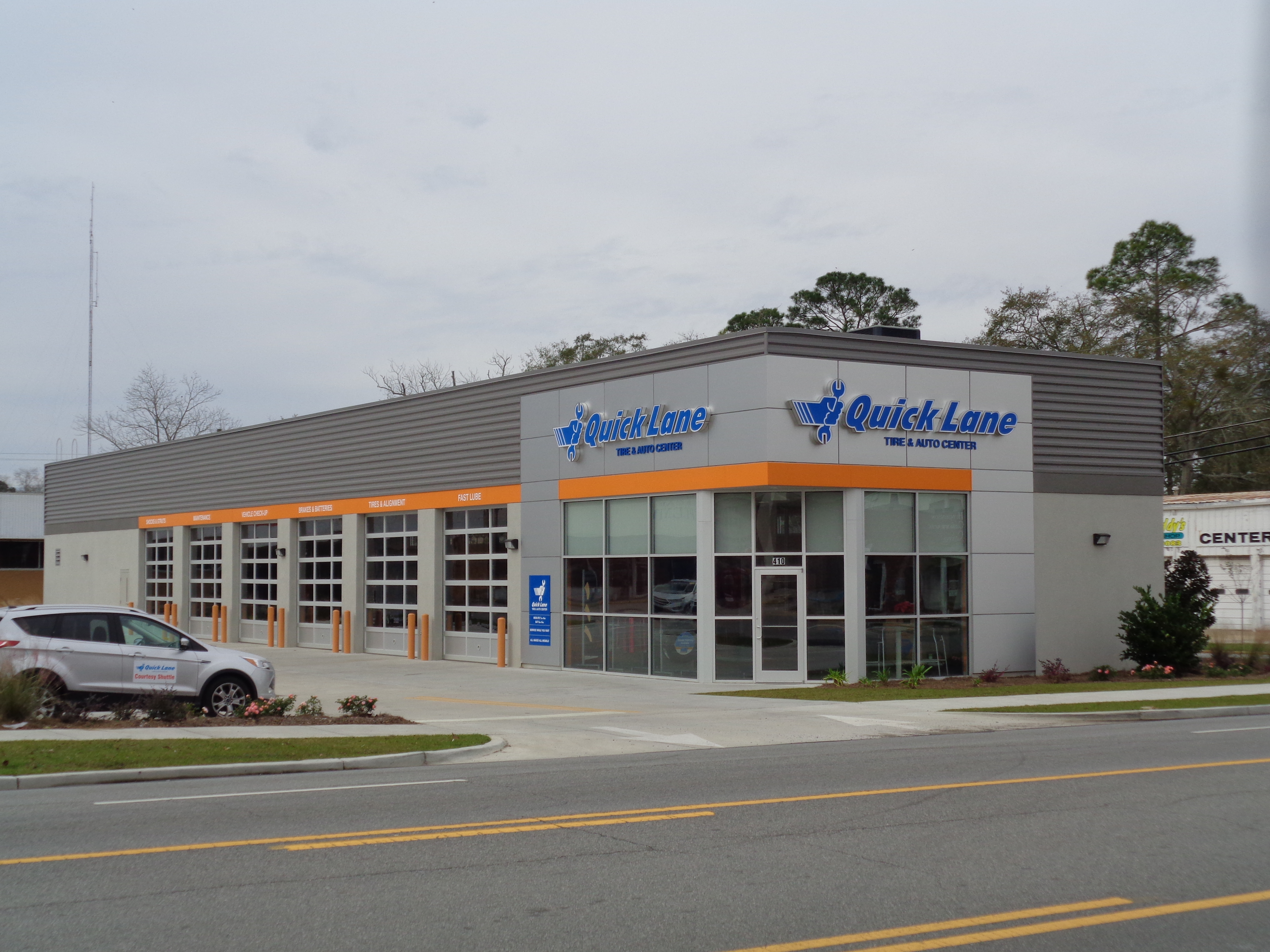 Quick Lane Tire and Auto Center, Valdosta, Lowndes County, Georgia